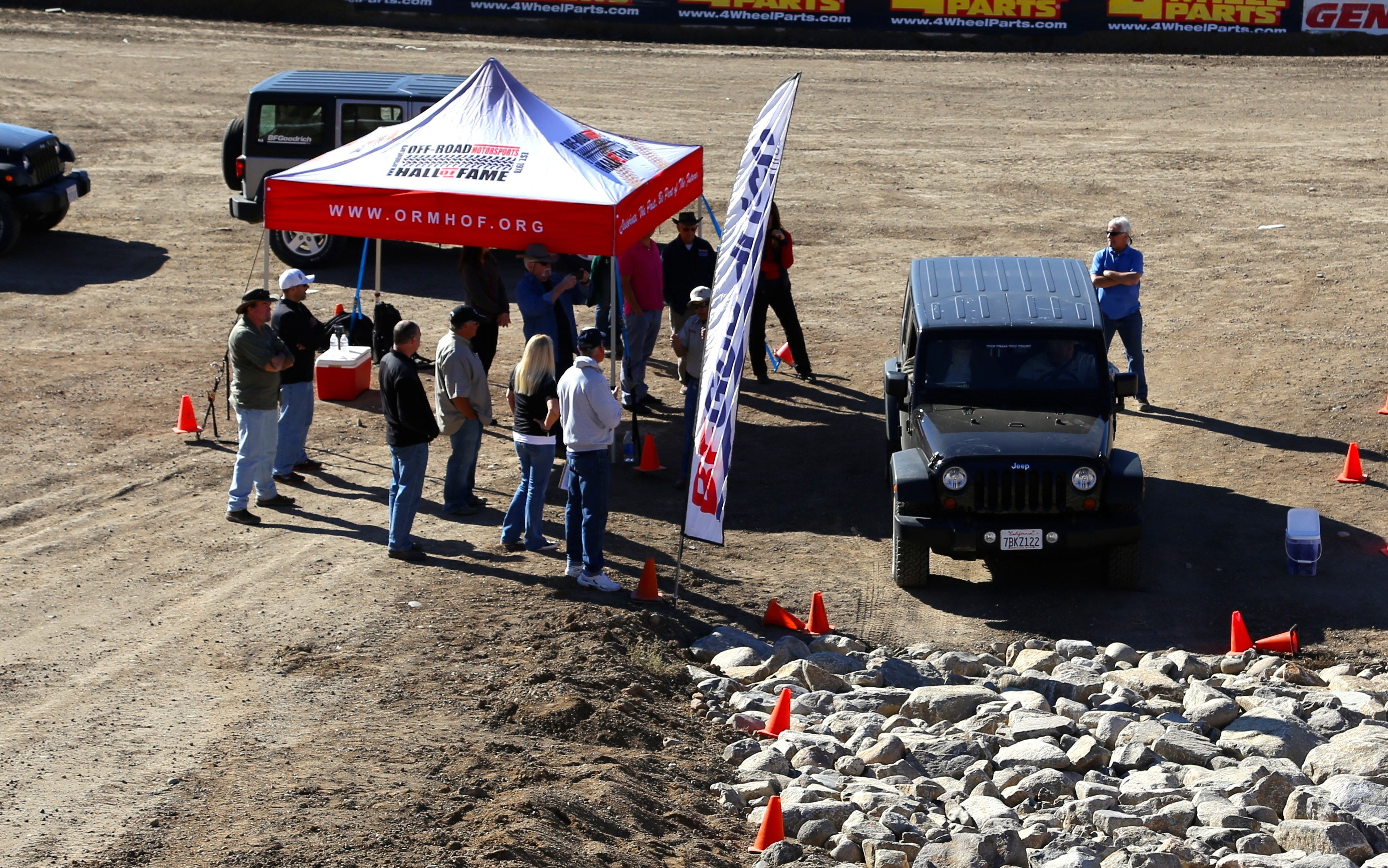 Rod Hall introducing the class to a competition during a Rod Hall DRIVE off-road driving school corporate event at Wild West Motorsports Park in October 2014.